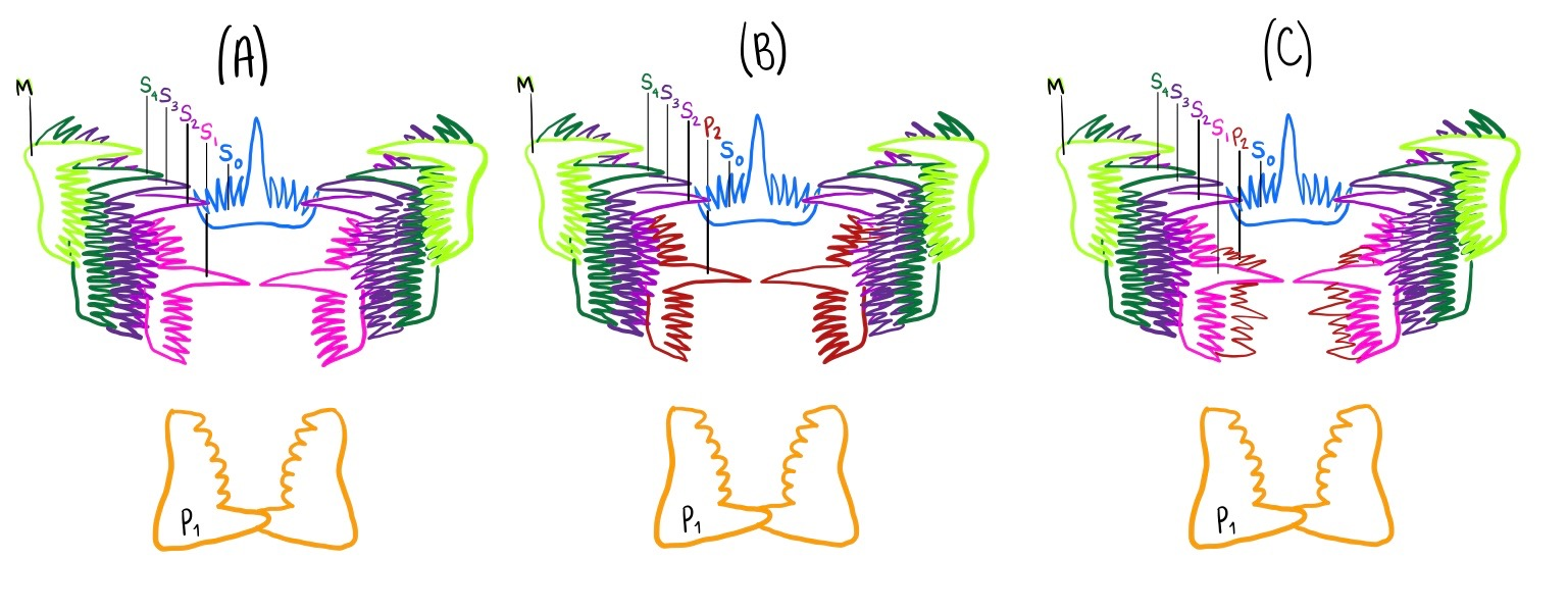 Three Hypotheses of Hindeodus apparatus: (A) Hypothesis that apparatus is missing 2P elements (B) Hypothesis that apparatus is missing 2S elements (C) Hypothesis that all elements are present, 2S elements fail to preserve